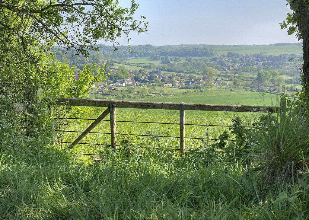 View of Stourpaine taken from the foot of Hod Hill